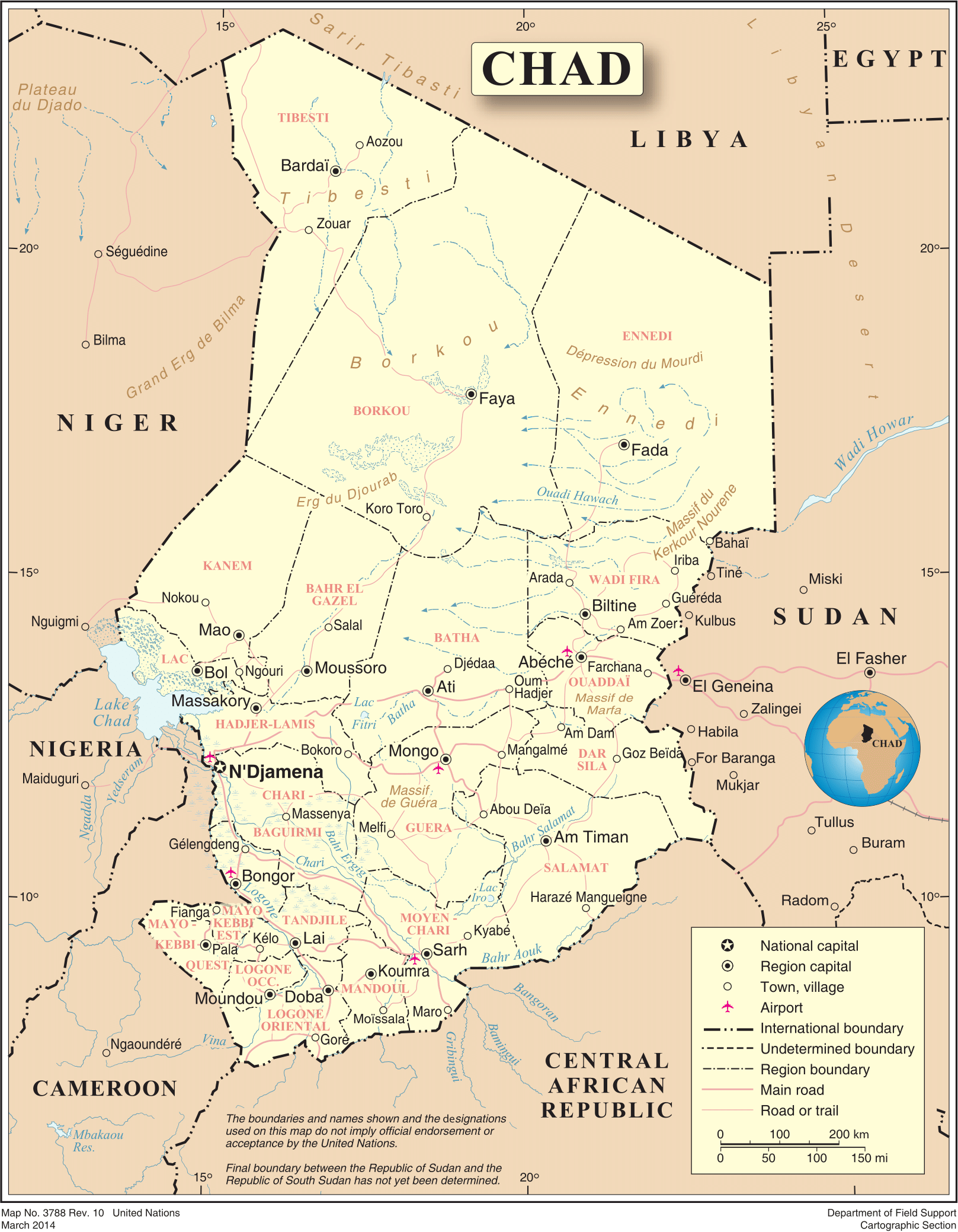 Map of Chad, showing region names and borders as of 2007. Based on UN map number 3788 (modified to remove UN name and reference number).